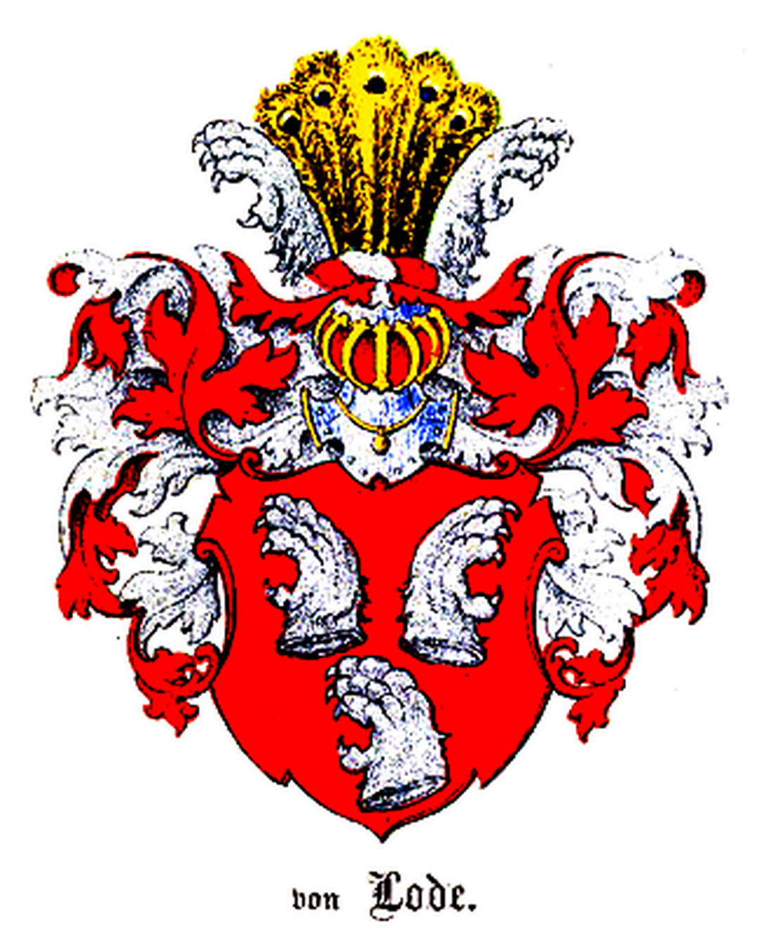 Coat of arms of von Lode family